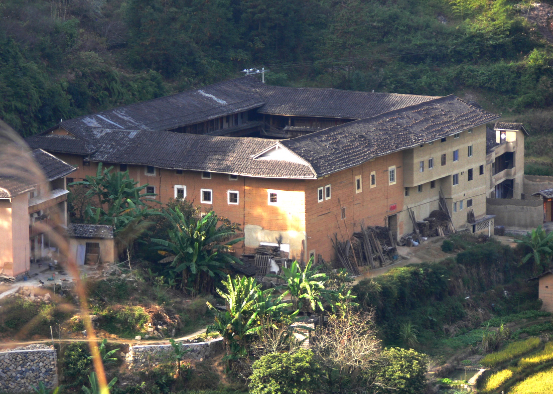 Square tulou 中文（中国大陆）: 方形土楼